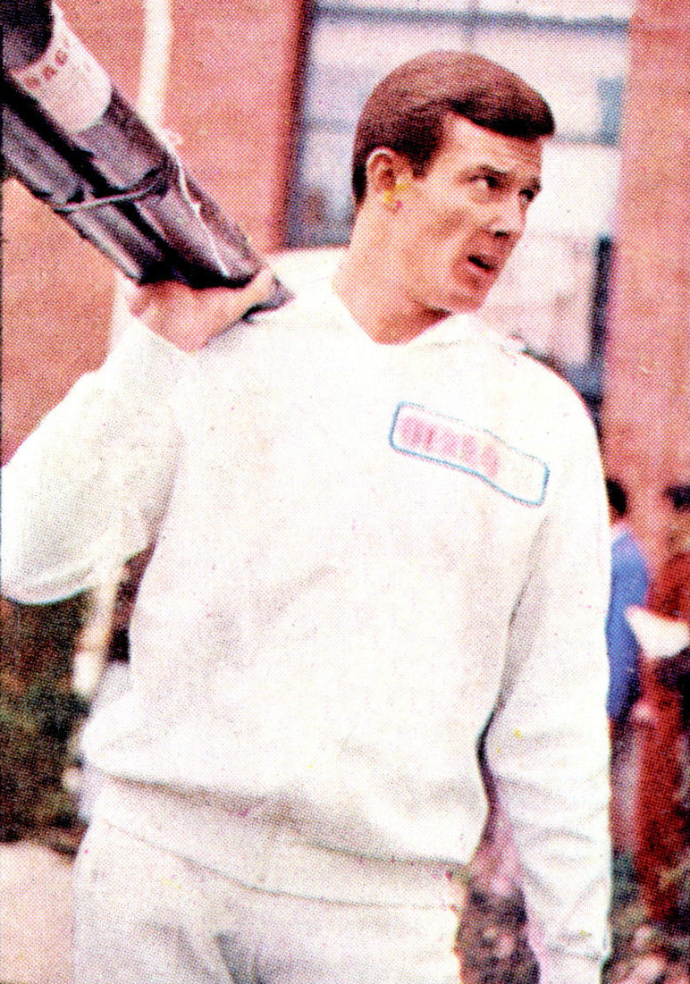 CAMPIONI DELLO SPORT 1969/70-n.54- BOB SEAGREN (USA)-ATLETICA LEGG-rec